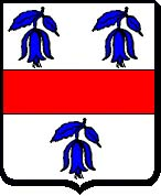 Coat of Arms, Le Tourneur de Versoris, Paris, Famille Mottet